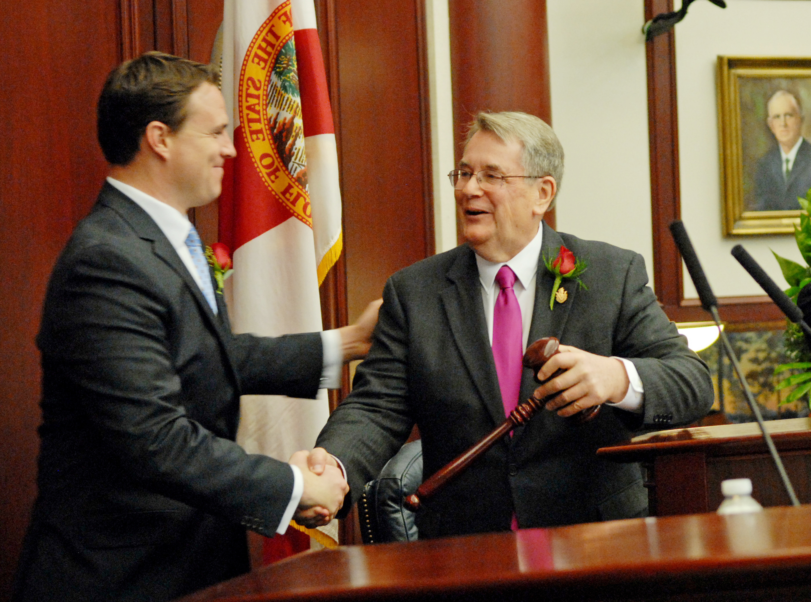 This is a picture of Florida House Speaker will Weatherford and Senate President Don Gaetz, published on the Florida House of Representatives publich website.